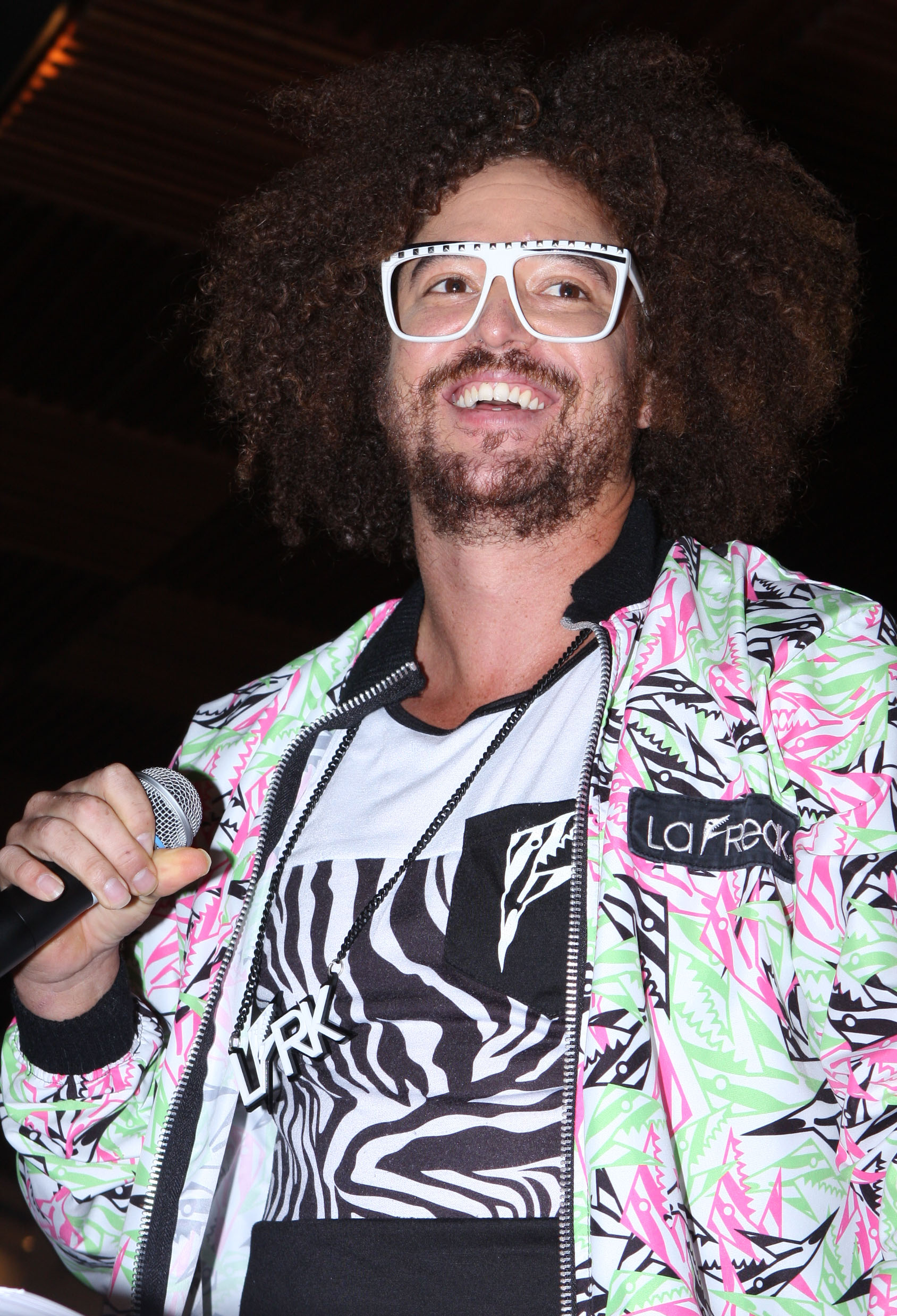 Redfoo Launches clothing line, Sydney